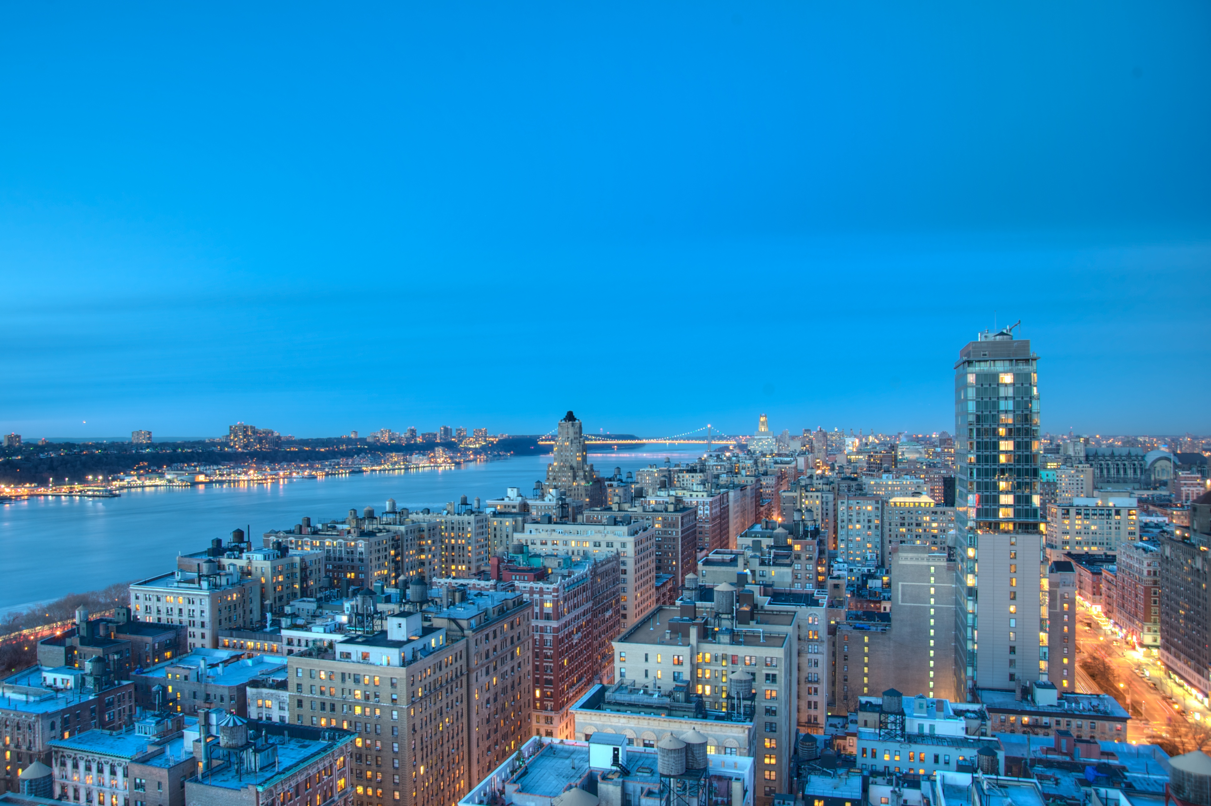 This is a wide-angle shot of the upper west side of Manhattan, looking north toward the George Washington Bridge. The north-south avenue that you can see on the left is West End Avenue; the more brighly lit avenue on the right is Broadway.